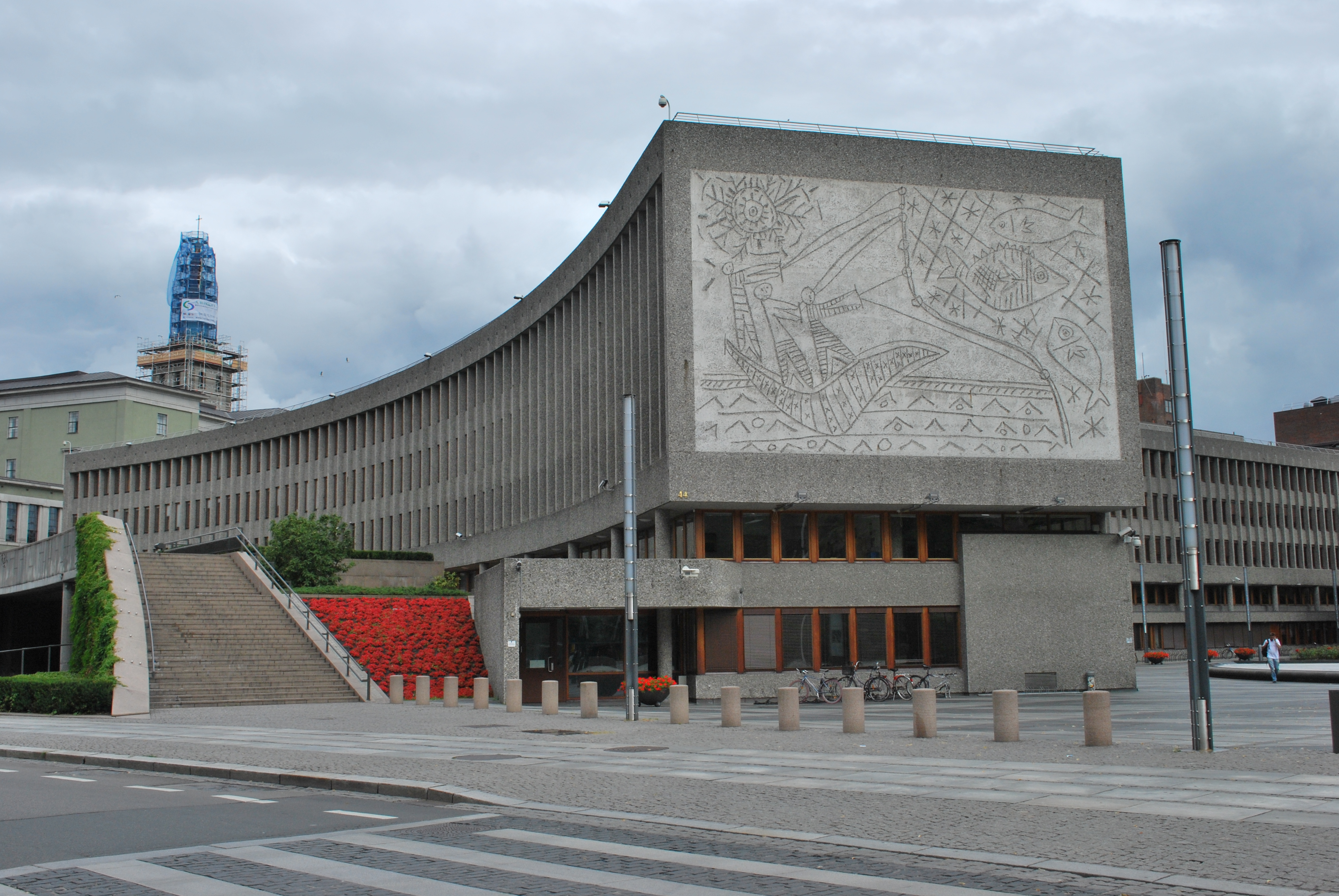 Y-blokken, Central Government Buildings (Regjeringskvartalet), Oslo, with decoration The Fishermen by Carl Nesjar after sketches by Pablo Picasso